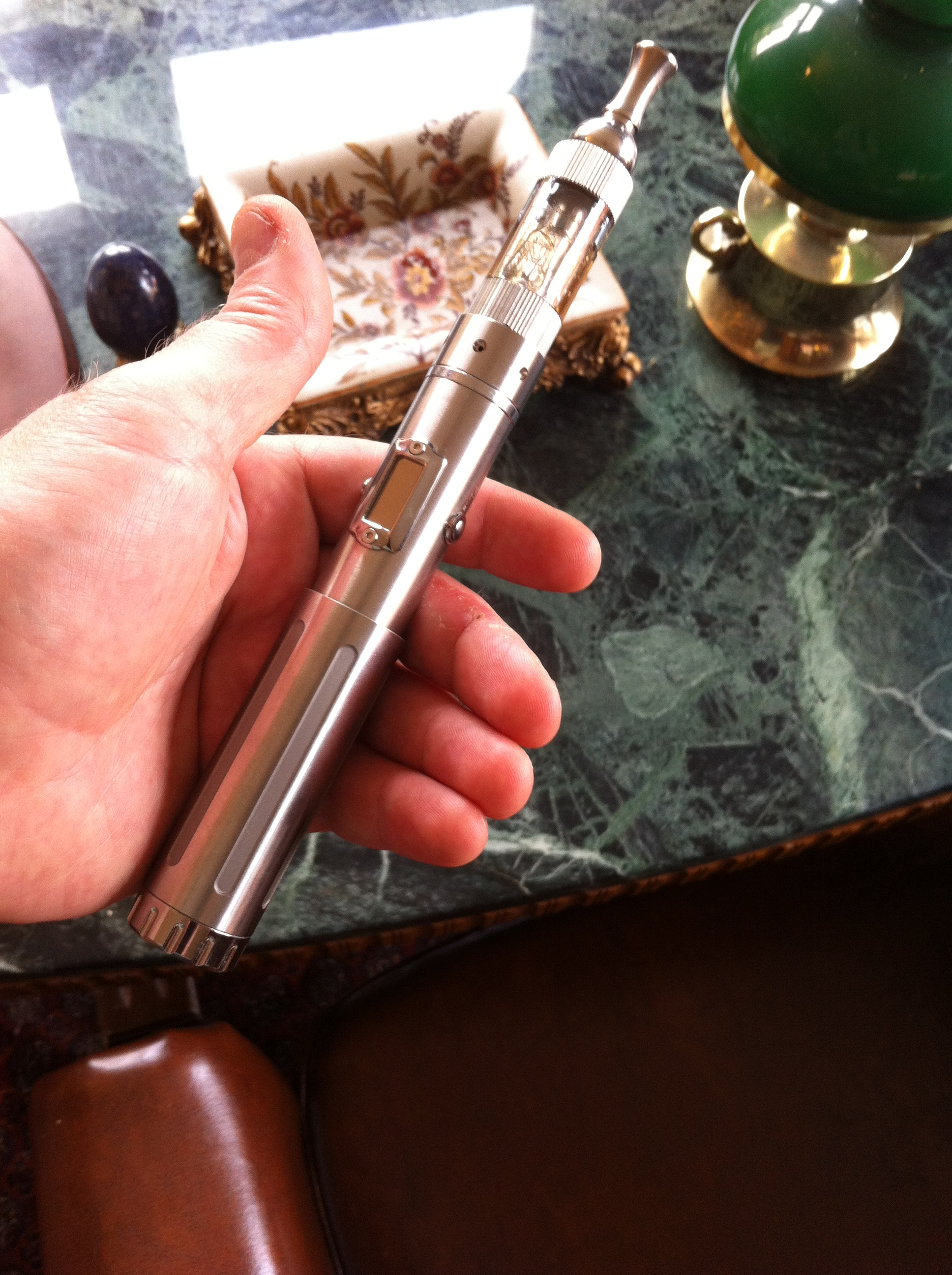 An Innokin iTaste SVD personal vapouriser fitted with an iClear30 clearomiser.